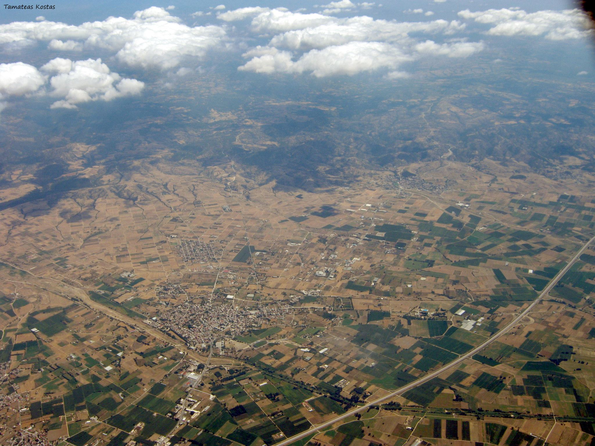 Langadas from 5 km altitude. Photo taken from Mission 1 of the amateur sub-orbit photography SlaRos Project